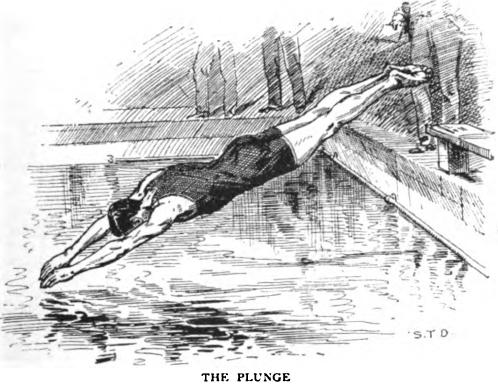 Picture of a swimmer plunging (the plunge for distance was a competitive swimming event in the 19th and early 20th century